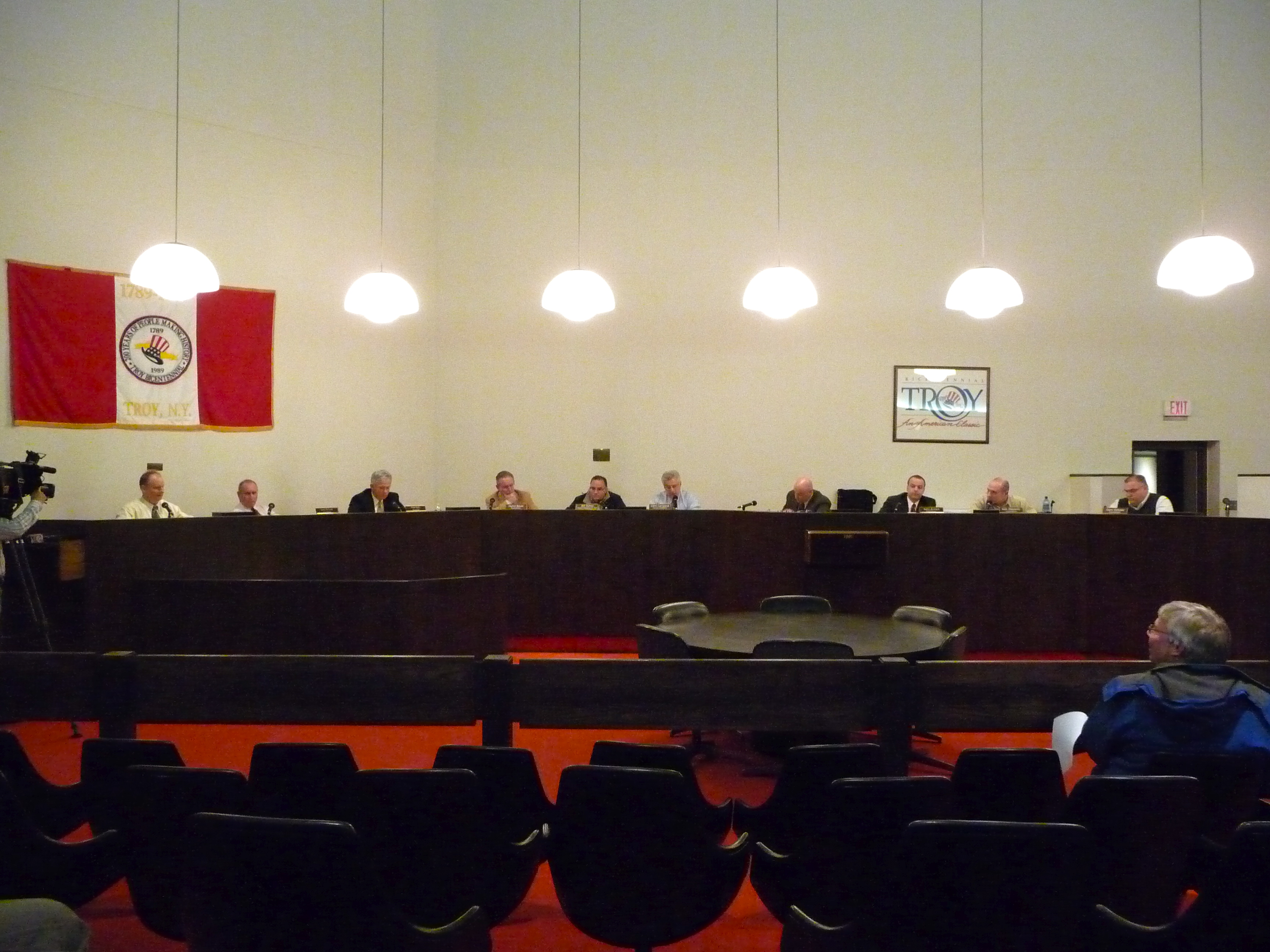 The Troy City Council votes to override Mayor Harry Tutunjian's veto of the Council's budget in Troy, New York, United States. From left to right: Mark Wojcik (R - District 1), Mark McGrath (R - District 2), Henry Bauer (R - At-Large), Peter Ryan (D - District 3), Bill Dunne (D - District 4; President Pro Tempore), Clem Campana (D - At-Large; President), City Clerk, John Brown (D - At-Large), Ken Zalewski (D - District 5), and Gary Galuski (D - District 6).[1] ↑ Troy NY Contact City Council. City of Troy, New York. Retrieved on 2009-12-14.